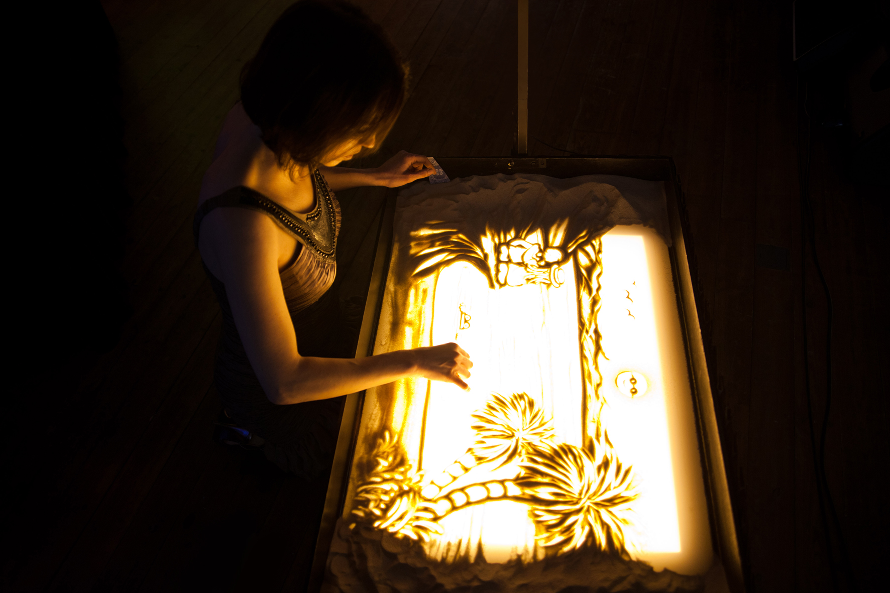 Katrin Weißensee by sand painting (in work)